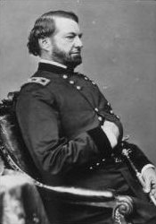 Benjamin W. Brice (1809–1892), a lawyer and soldier who served in the United States Army during the Black Hawk War and Mexican-American War. Later he served as the Paymaster General of the Union Army during the American Civil War and postbellum period, Brice retired in 1872 at the rank of brevet major general.